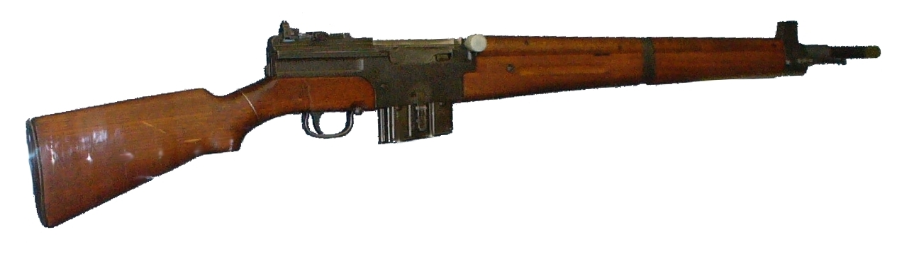 MAS-49, French postwar rifle (semi-automatic)